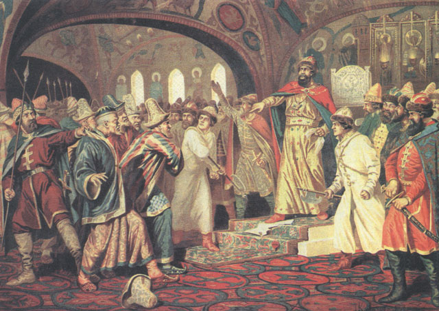 "Ivan III tears off the khans missive letter in front his ambassadors". 1879, Oil on canvas.